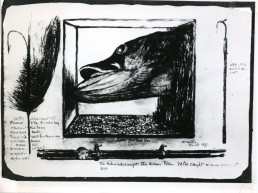 The Loch Ken Pike, caught by gamekeeper to Lord Kenmure at Kenmure Castle, John Murray in 1774.